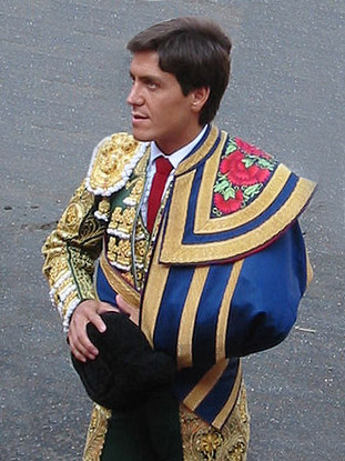 Matador Antonio Barrera in the capote de paseo (dress cape) before a bullfight during the 2003 Aste Nagusia festival in Bilbao, Spain.